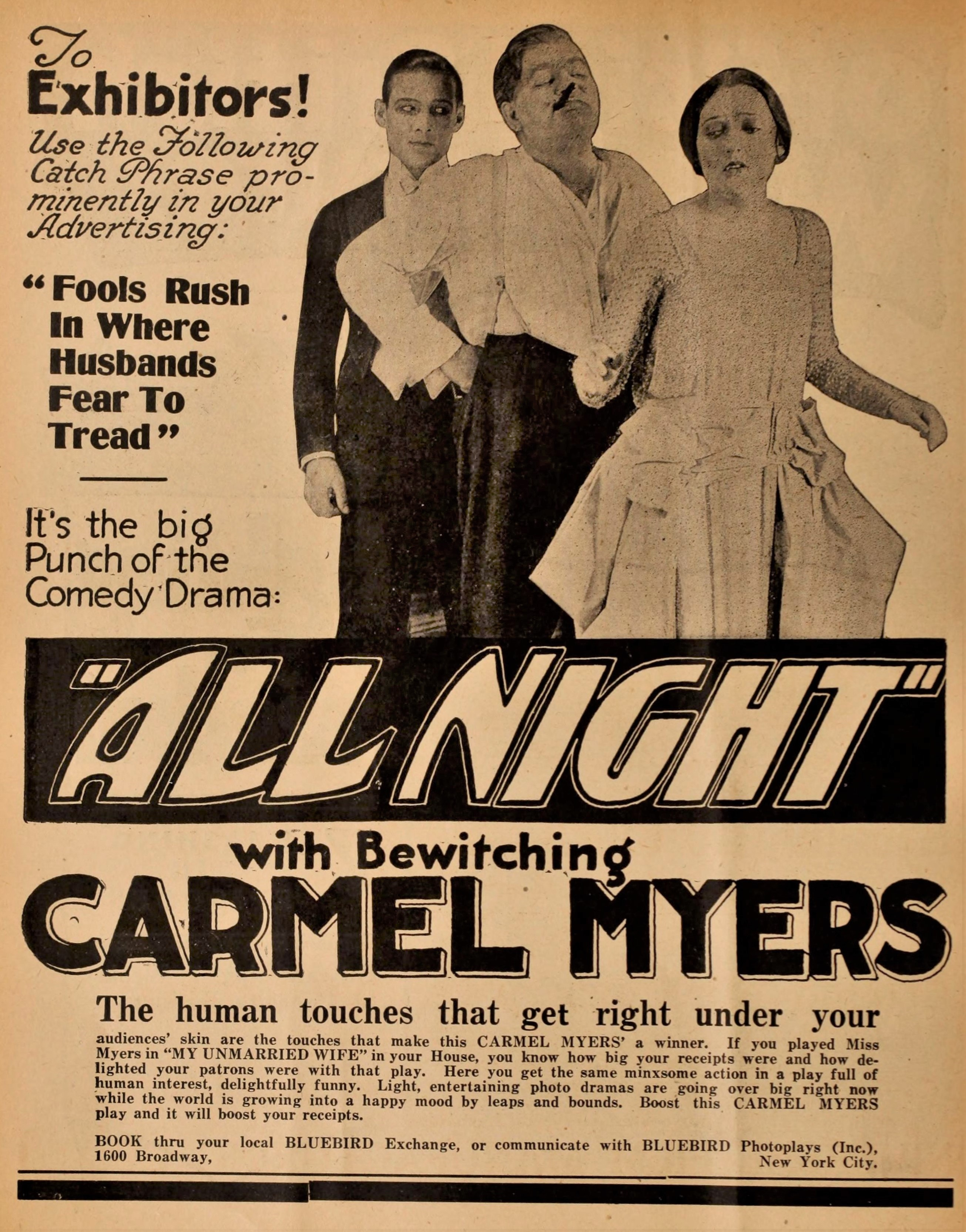 This advertisement for the 1918 film All Night is directed towards film exhibitors. It features Carmel Myers, William Dyer, and Rudolph Valentino on the top. It is from The Moving Picture Weekly, November 23, 1918.